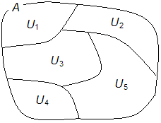 Partition of a set